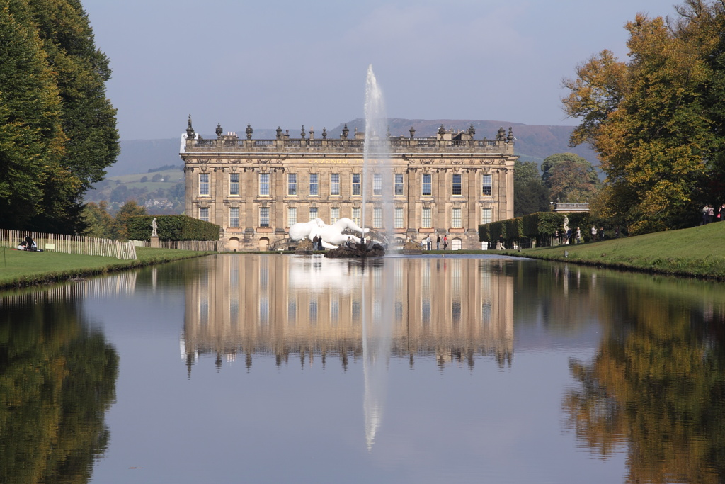 Reflections of Chatsworth House in the Canal Pond with the installation of Planet in the foreground by Marc Quinn